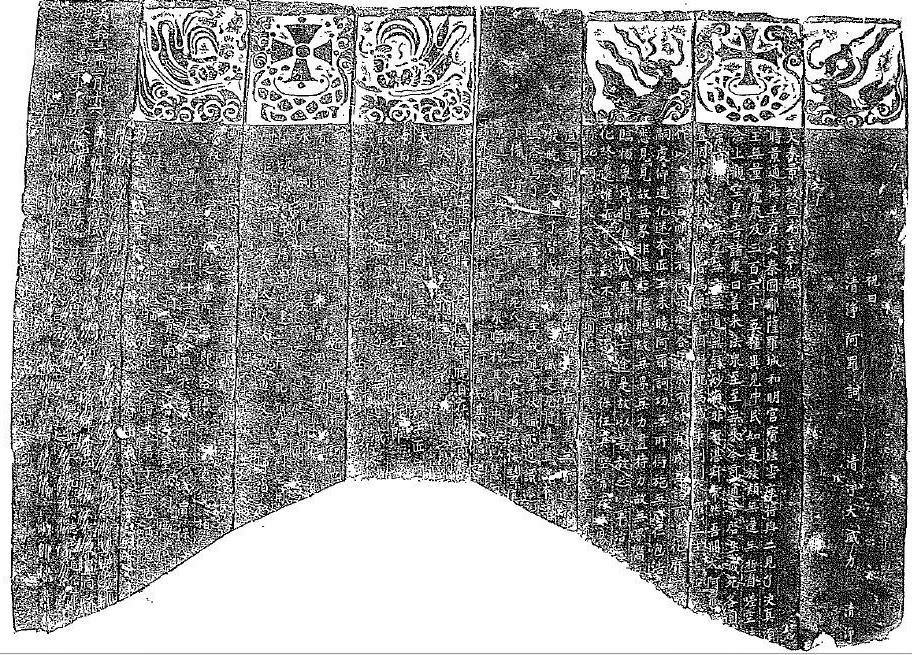 Rubbing of the Nestorian scriptural pillar, the inscription of which bears the Chinese Nestorian text “Sutras on the Origin of Origins of Ta-ch‘in Luminous Religion”. From Collection of Tomb Inscriptions Excavated Near Luoyang, Henan Province by Zhao Junping and Zhao Wencheng, p. 522. Beijing Library Press, 2007.